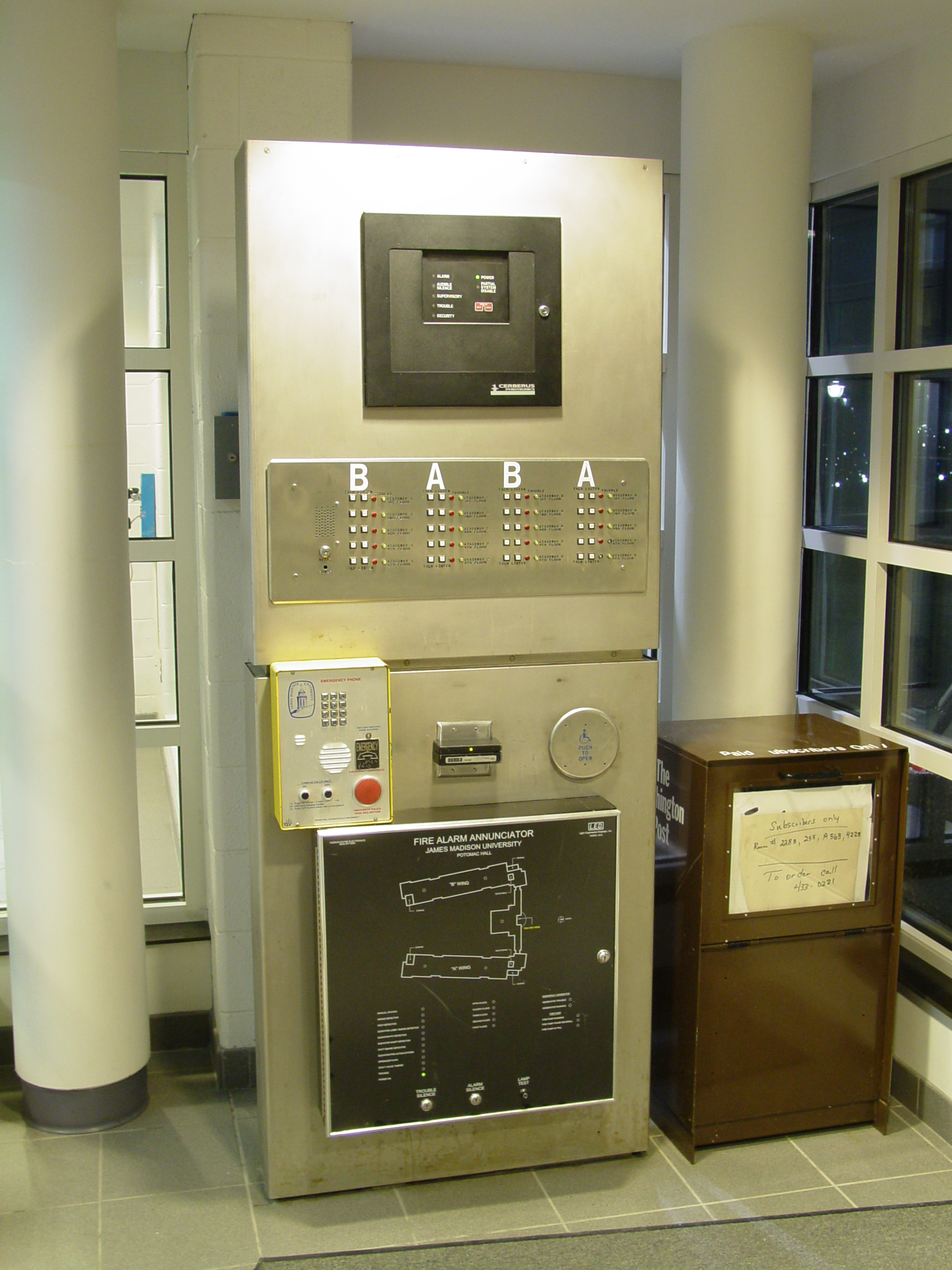 The fire alarm control panel, a Siemens MXL, for Potomac Hall at James Madison University.